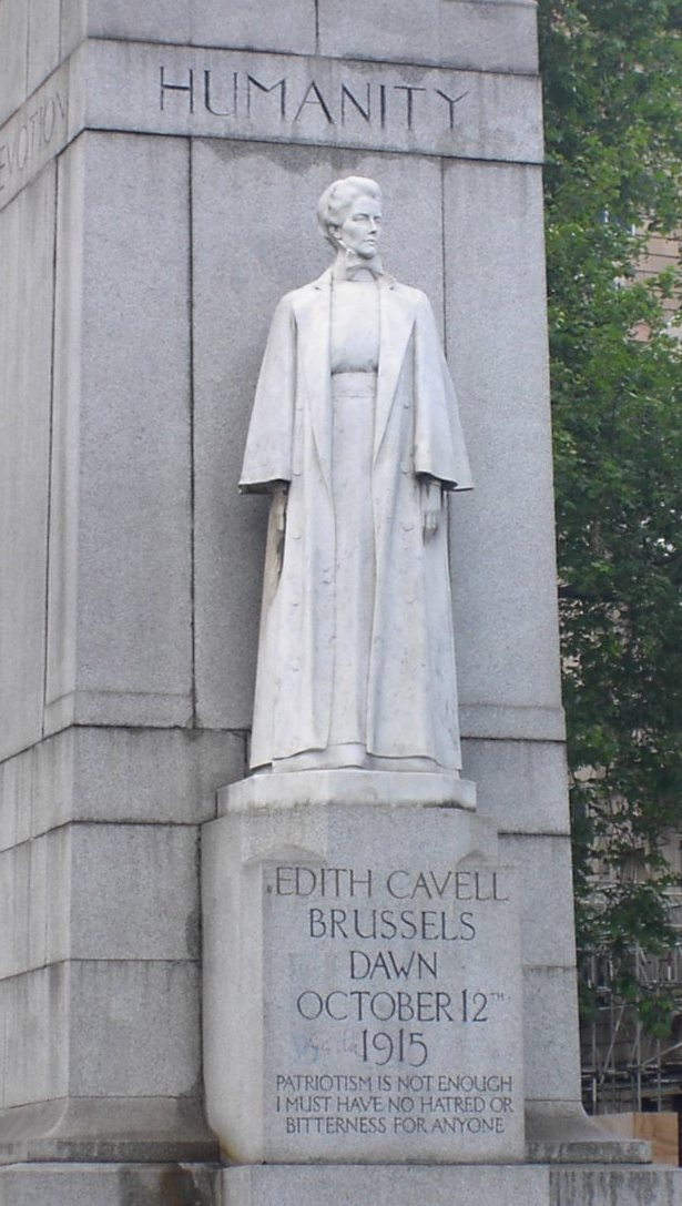 Memorial monument for Edith Cavell